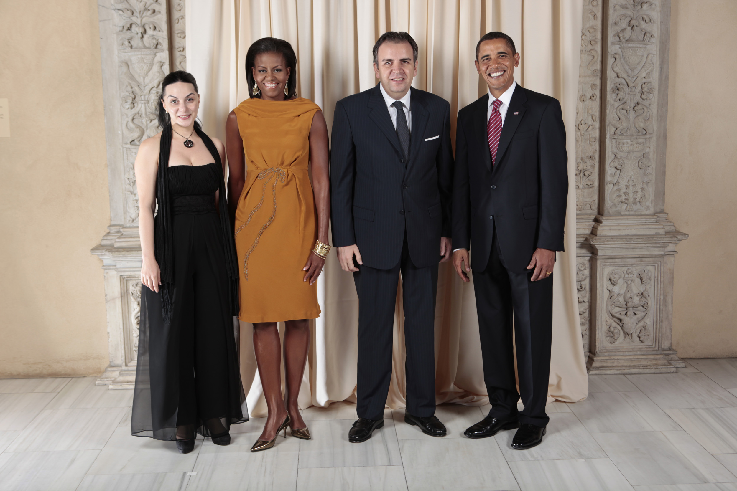 President Barack Obama and First Lady Michelle Obama pose for a photo during a reception at the Metropolitan Museum in New York with Garen Nazarian, Permanent Representative of Armenia to the United Nations, and his wife, Mrs. Siranoush Nazarian.